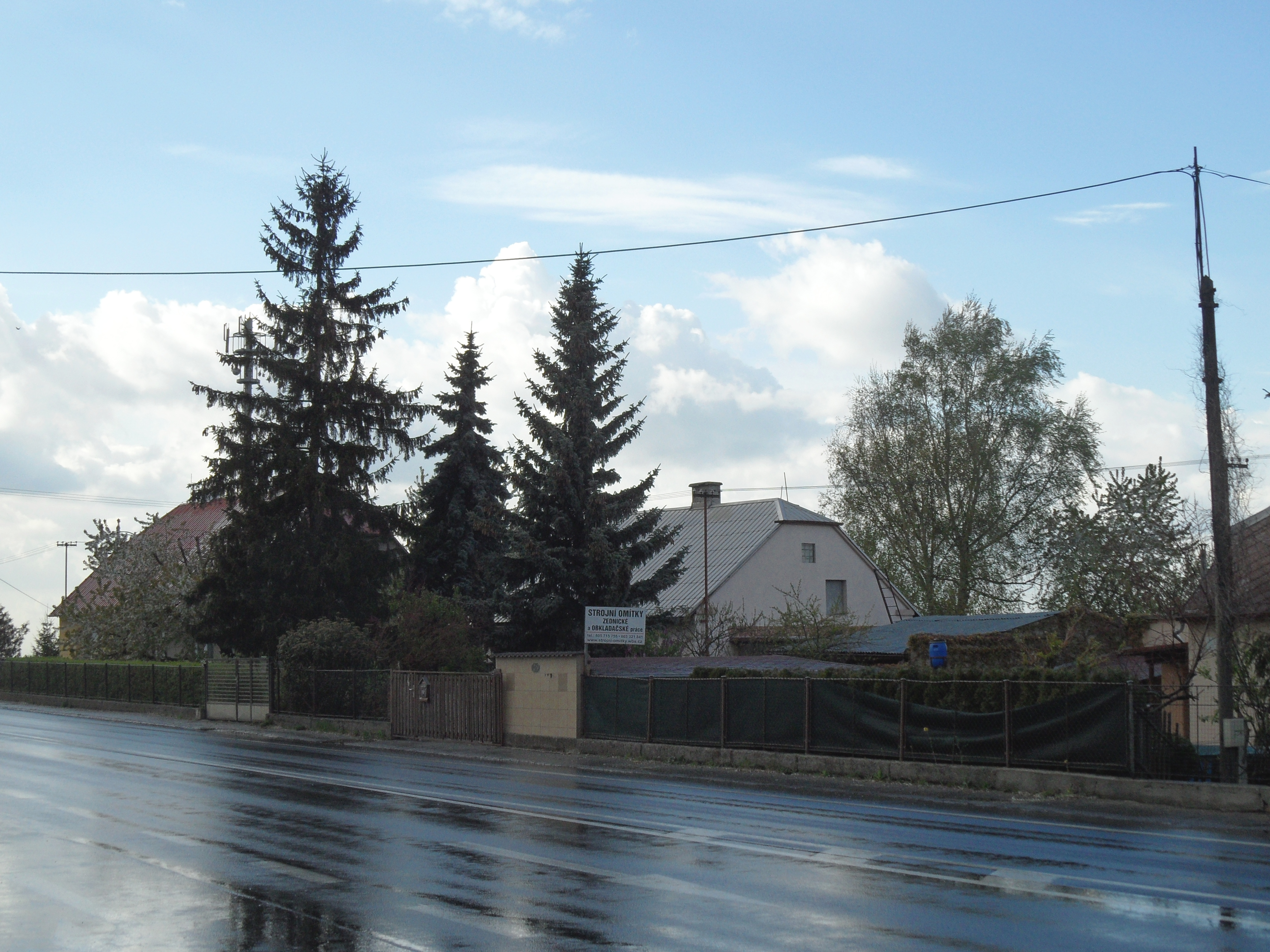 Nové Město (Břežany I) A. Nové Město, View from Road I/12, direction to Prague, Kolín District, the Czech Republic.